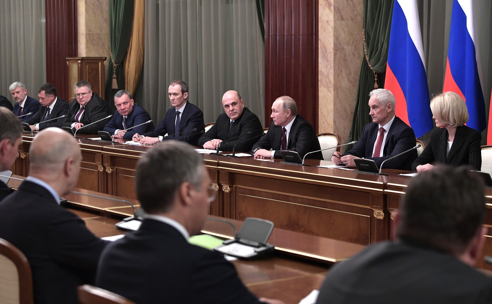 Vladimir Putin met with Government members